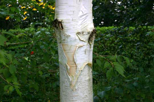 Tree trunk - Birch